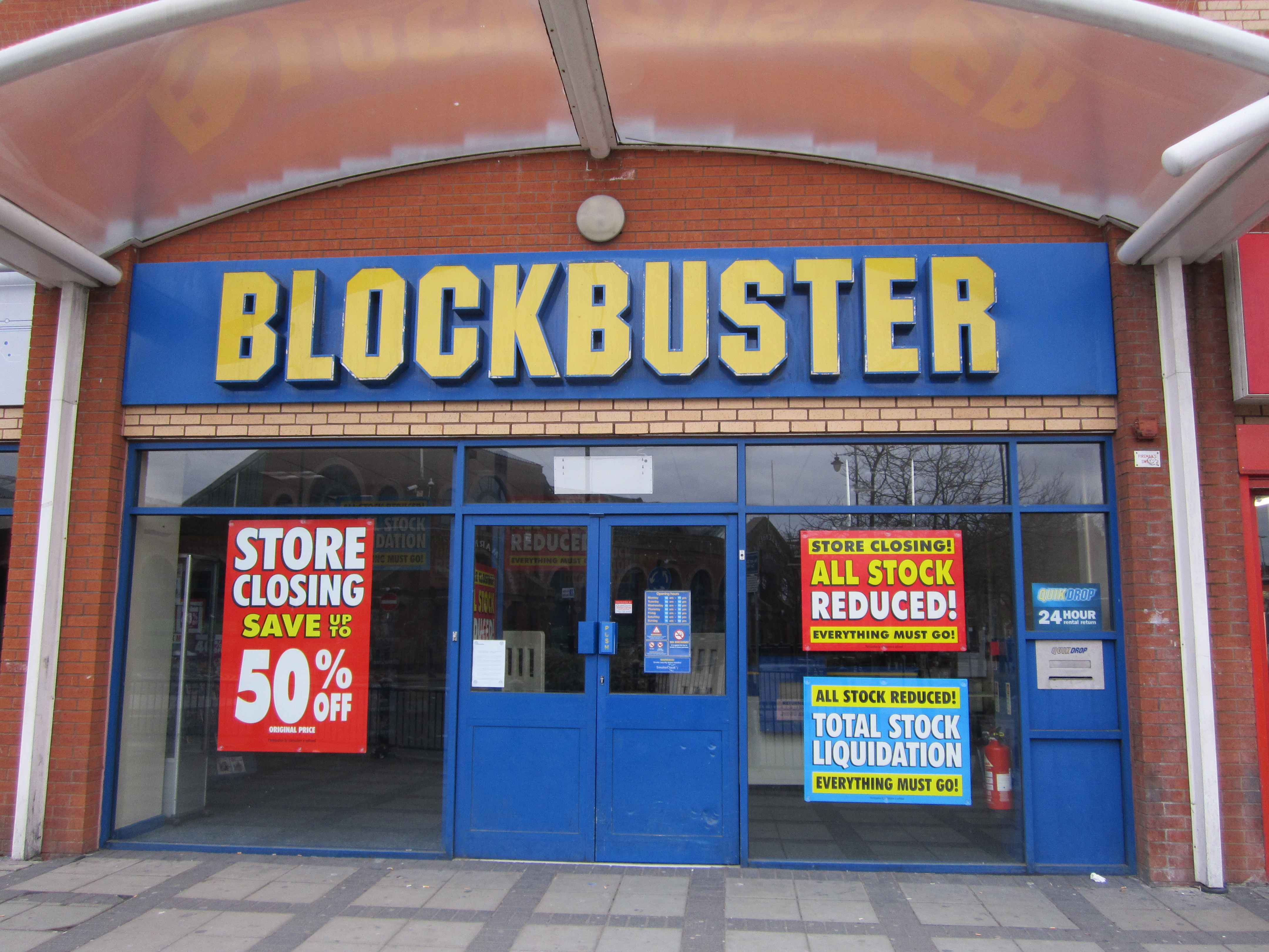 Blockbuster home video rental store, Unit 3, Europa Centre, Claughton Road, Birkenhead, Merseyside, England. Earmarked for closure at the time of the photo.